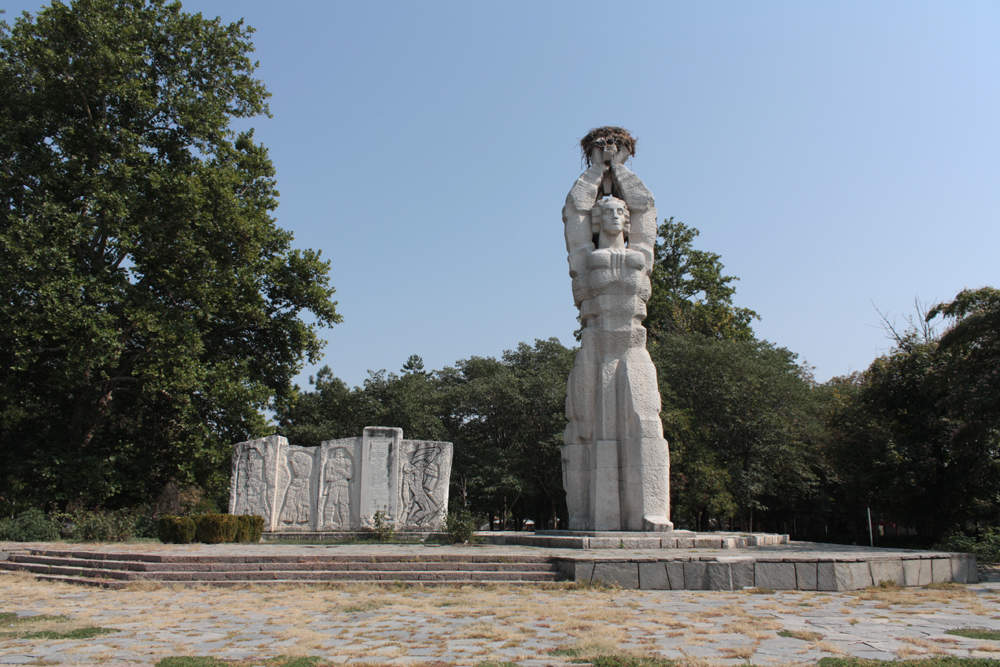 Antifascist monument in Tsalapitsa village, Bulgaria